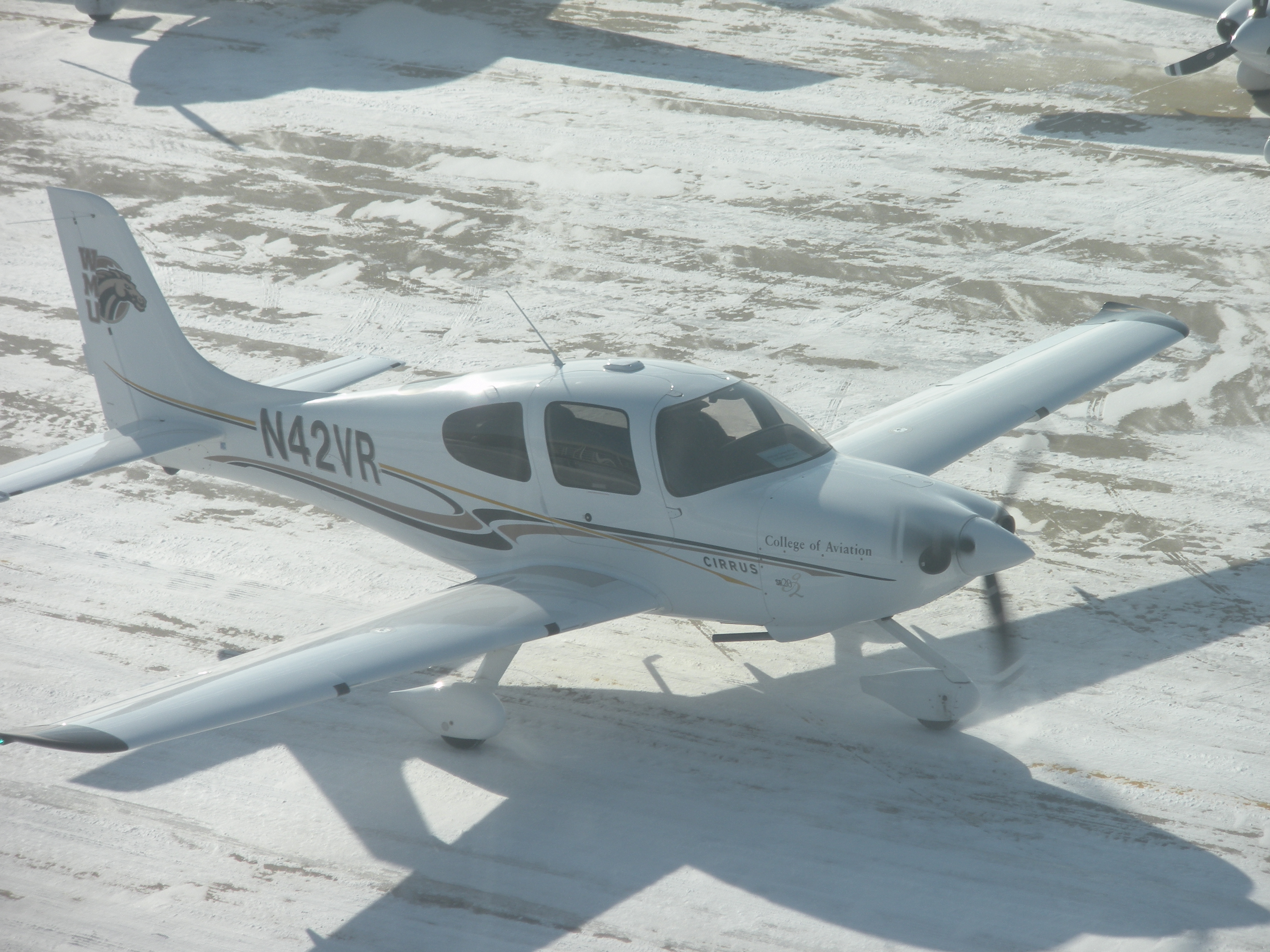 A Cirrus SR-20 belonging to Western Michigan University taxis along the ramp.